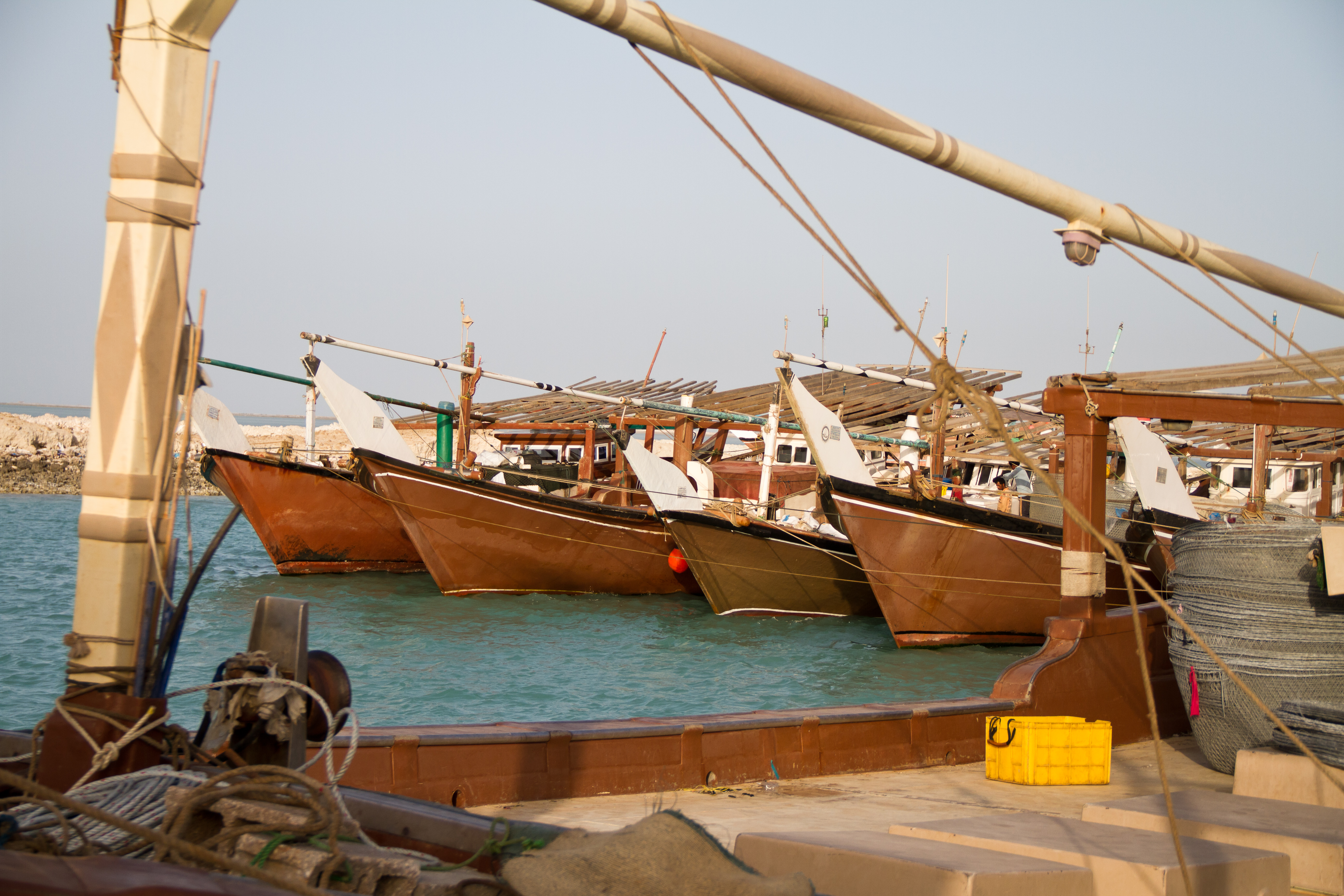 Dhow boats in Madinat ash Shamal (Al Ruwais), Qatar.